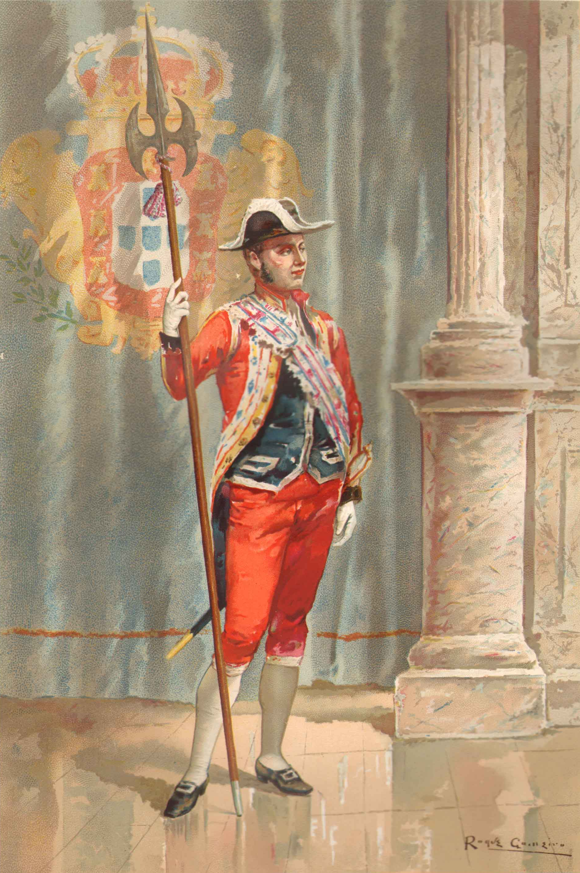 A member of the Royal Guard of the Archers, by Alfredo Roque Gameiro. Illustration of the Álbum de Costumes Portugueses ("Album of Portuguese Customs"), 1888.